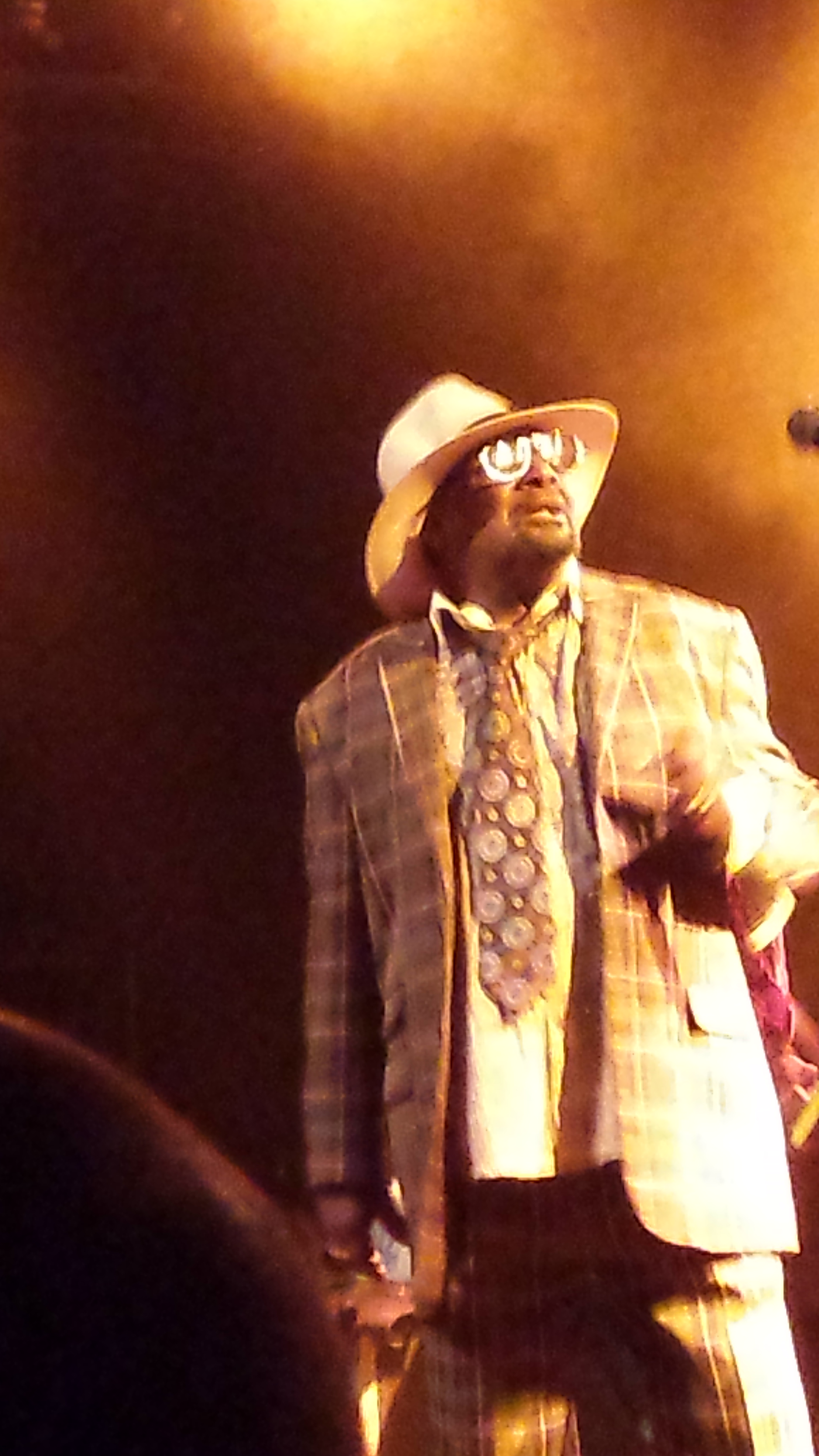 Clinton performing in Auckland, New Zealand 2015